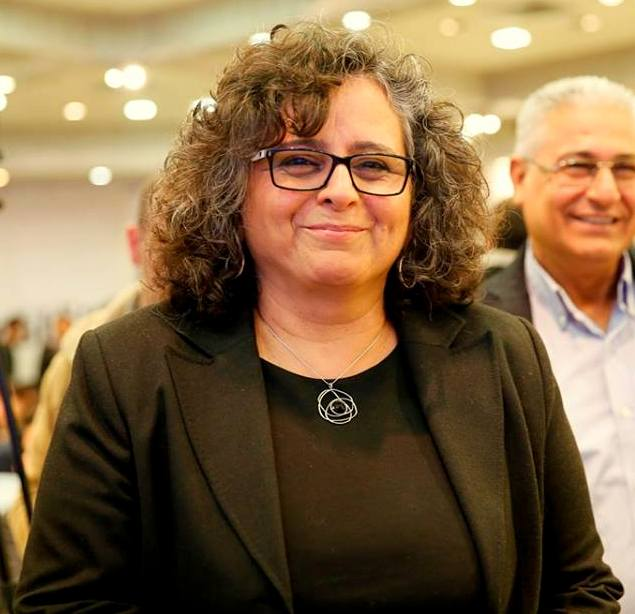 Aida Touma-Suleiman, photographed in Nazareth